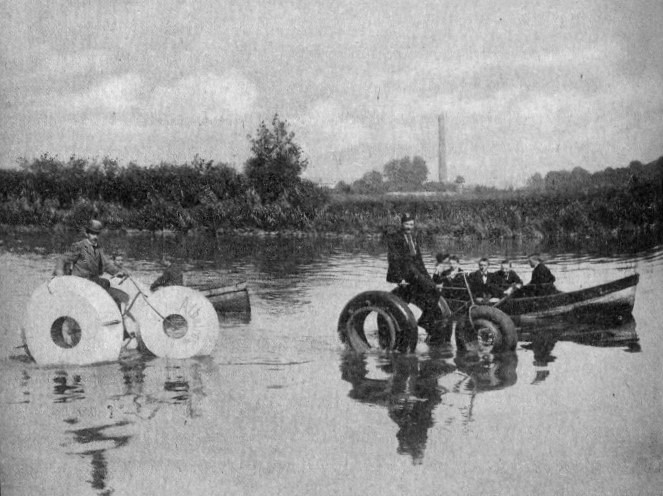 Water velociped built by Max Wenkel 1895